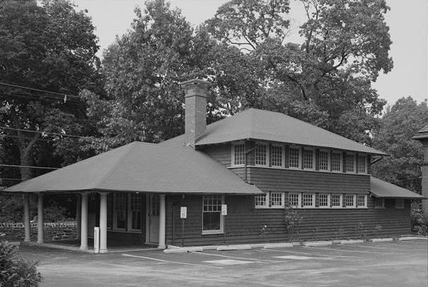 "The Cottage", Merion Cricket Club, Montgomery Avenue & Grays Lane, Haverford, Pennsylvania (c. 1905), Furness, Evans & Company, architects (attributed to Allen Evans).